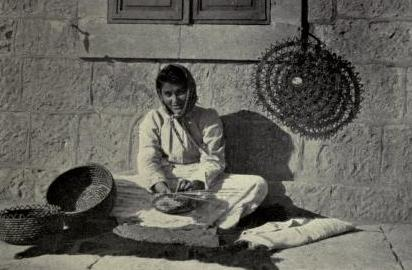 A Palestinian girl in Jifna weaving in the traditional style